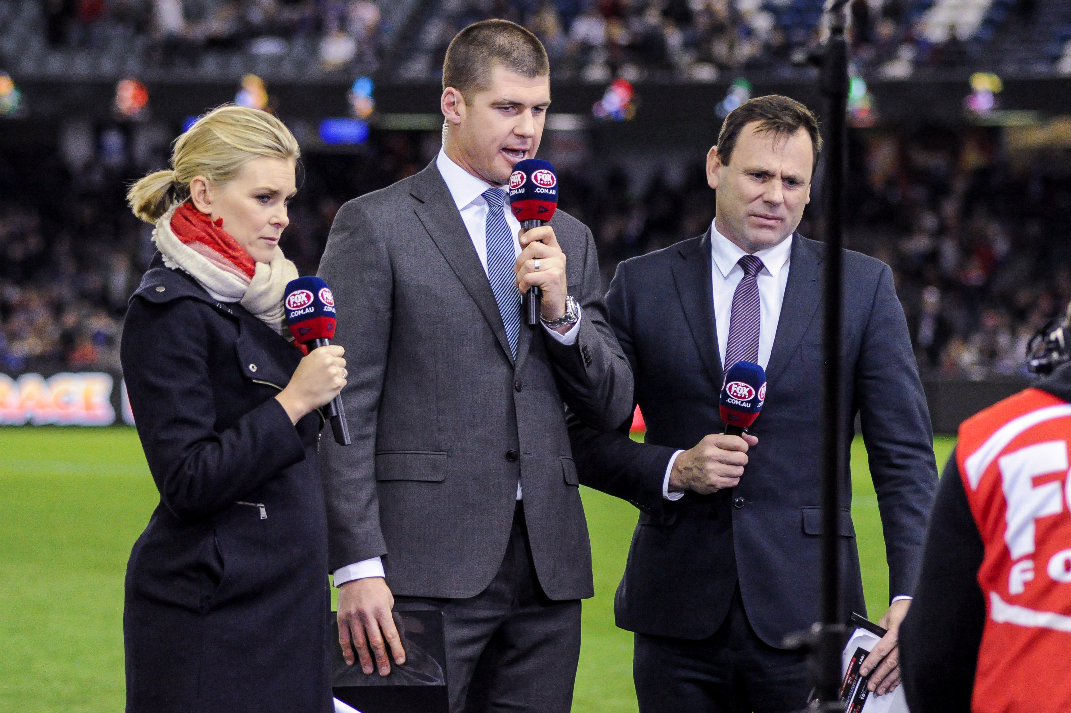 Sarah Jones, Jonathan Brown and David King during the AFL round thirteen match between the Western Bulldogs and Melbourne on 18 June 2017 at Etihad Stadium in Melbourne, Victoria.